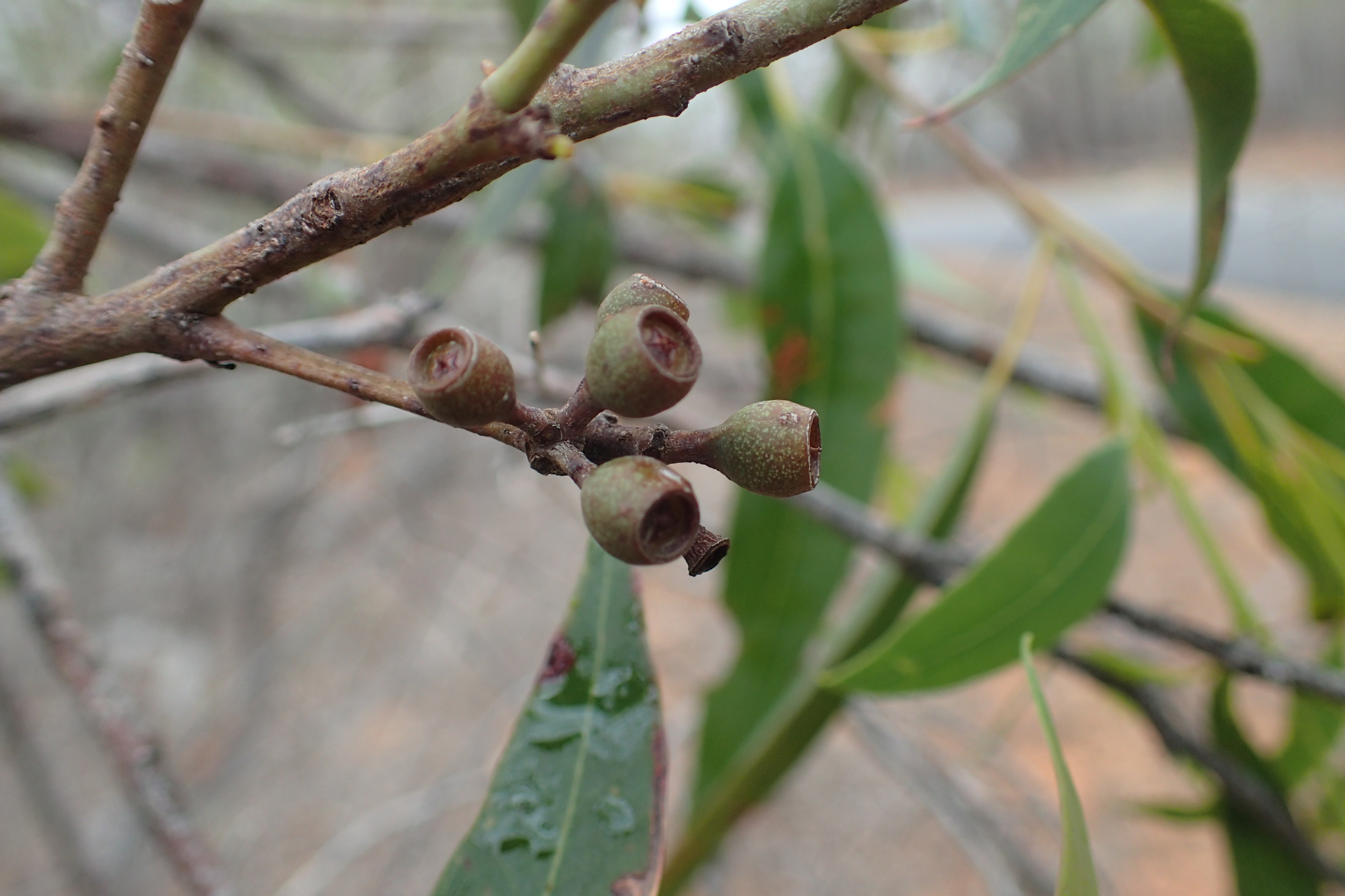 Fruit of Eucalyptus helidonica near Seventeen Mile Road, Helidon, Queensland